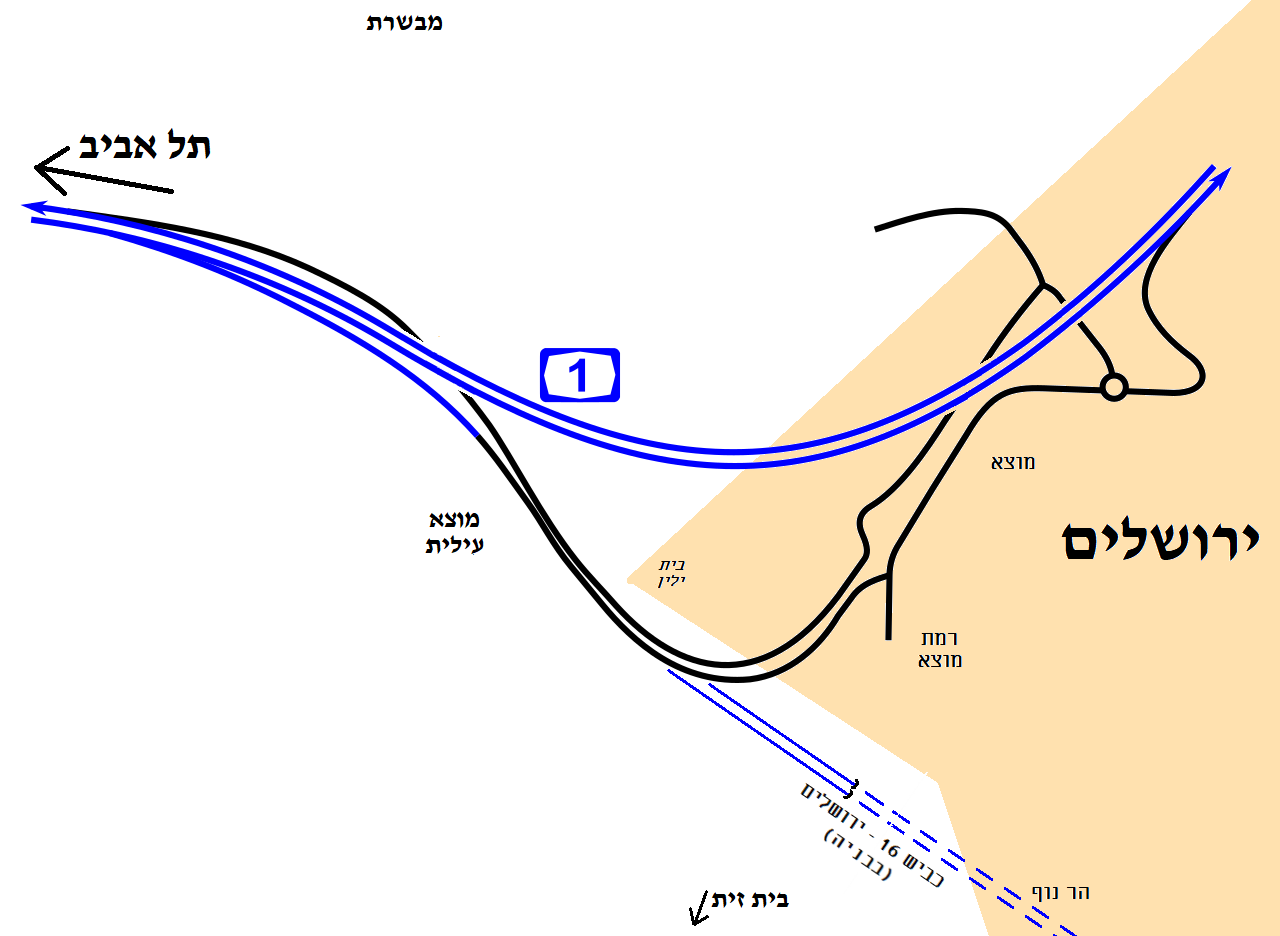 Diagram of Motza Interchange of Highway 1 (Israel)